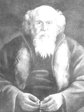 Portrait of the Bulgarian landlord Shishman, who liven in 18 century in Vidin, Bulgaria